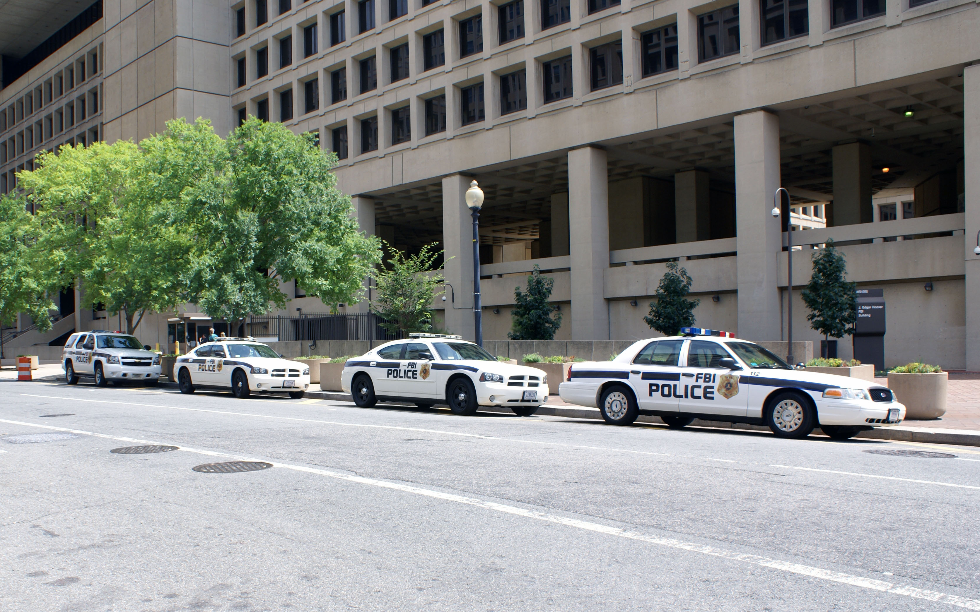 Cruisers of the FBI Police in front of the Hoover building in DC